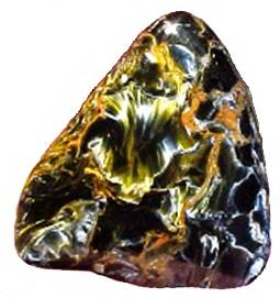 A digital photo of an African Pietersite stone that I own, with the background whited out so only the object stone is shown